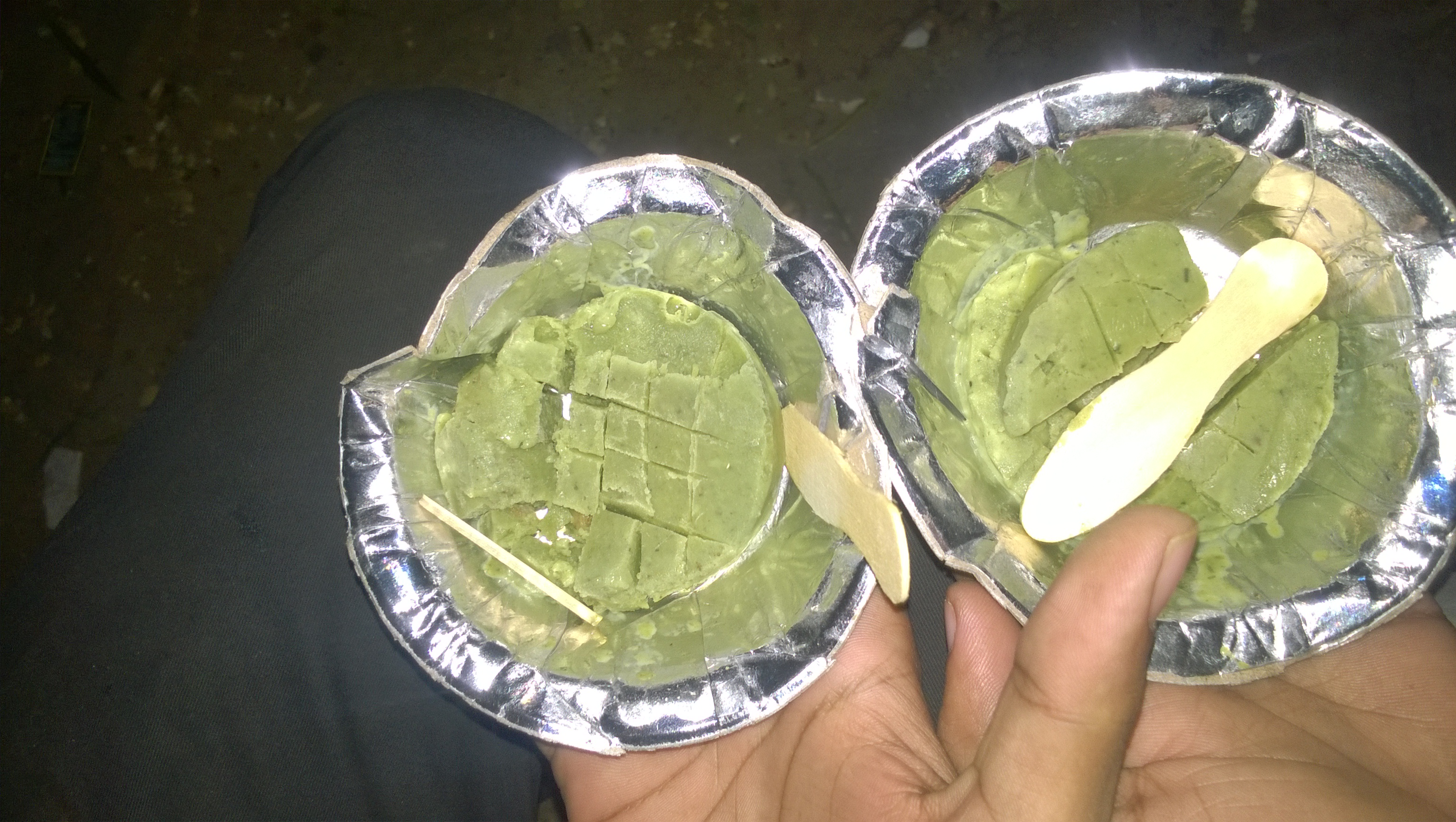 Ice cream of which marijuana is an ingridiant